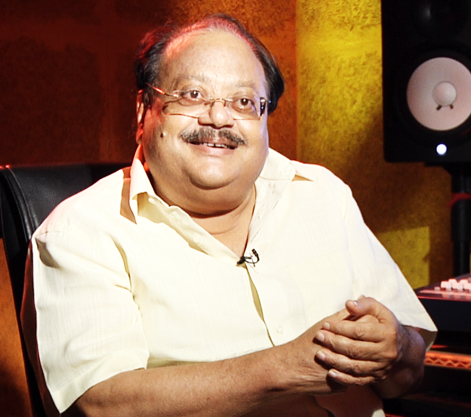 Actor and former Minister of State, Prashanta Nanda, gives a behind-the-scenes interview for the Odia language version of the TeachAIDS animation in Bhubaneswar, Odisha. Photo credit: TeachAIDS